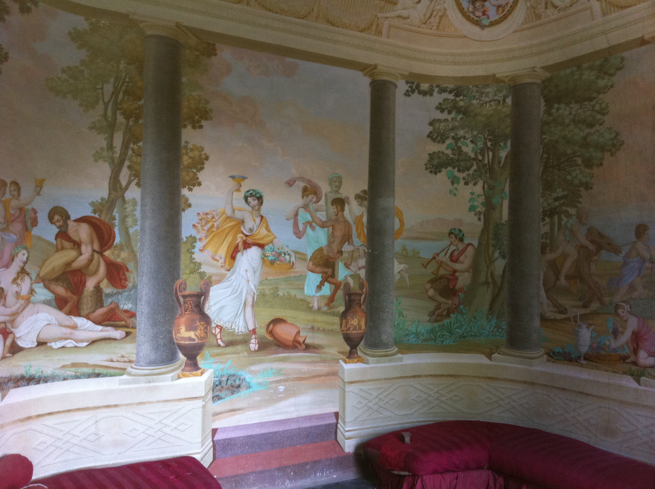 affresco Villa Roncioni, Pugnano, San Giuliano Terme, Pisa